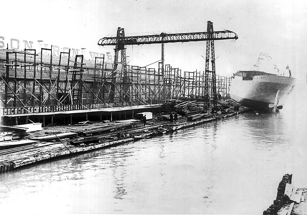 Launching the "Aquila" (later renamed War Hamilton), at the Polson slip, in Toronto, Ontario, Canada.